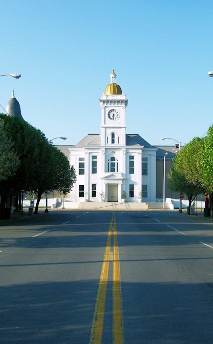 Main Street in Pine Bluff, Arkansas.